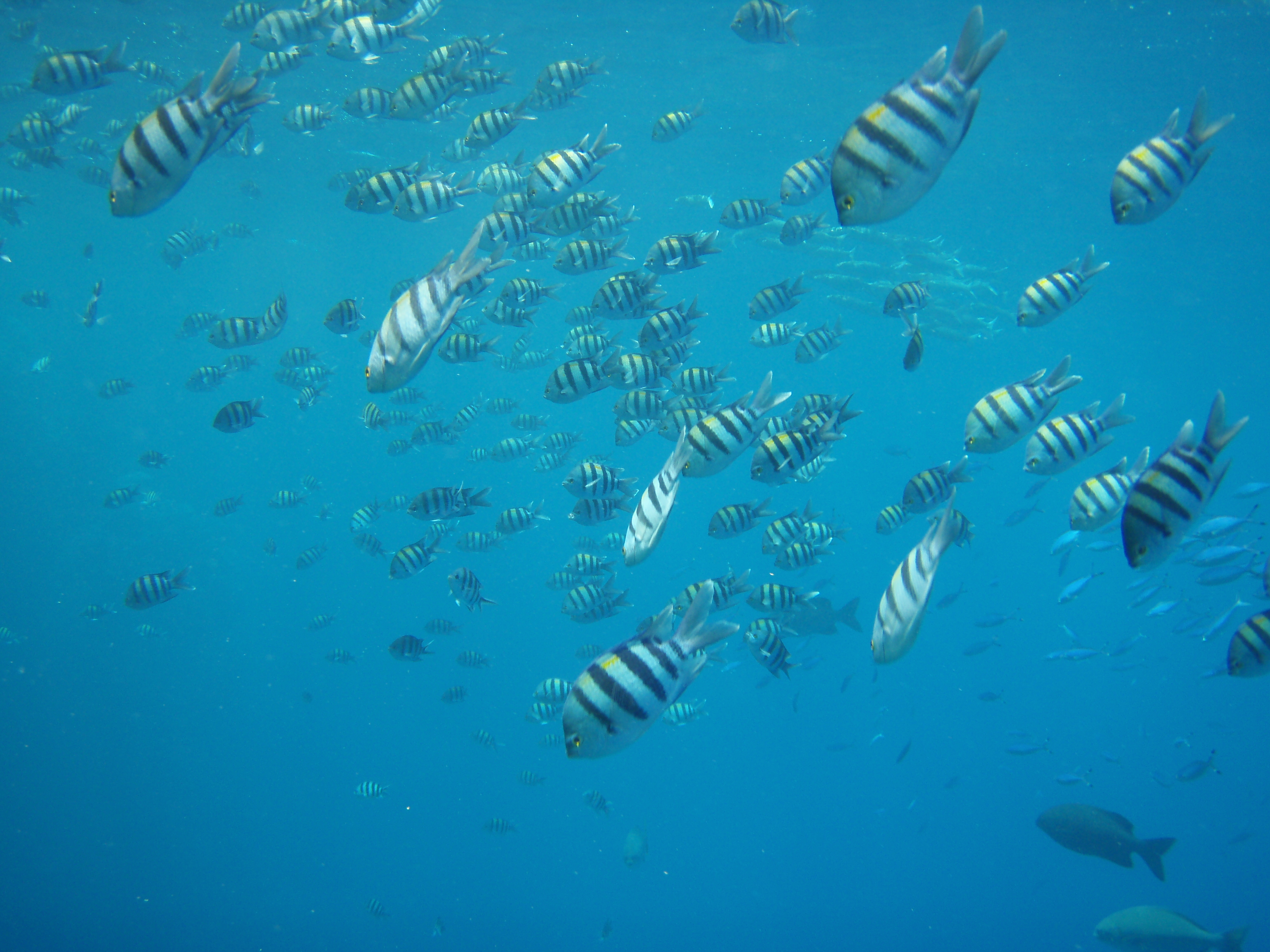 Sergeant major (Abudefduf vaigiensis) in red sea